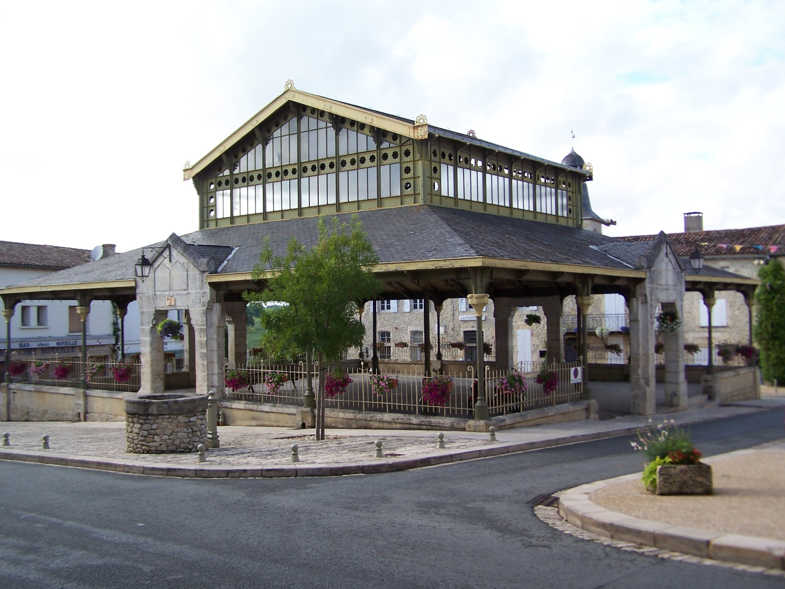 Market hall of Pellegrue (Gironde, France)